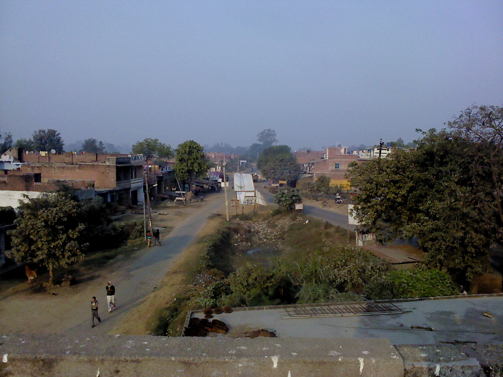 This is a view of Shikshak Nagar Tiraha in Mangalpur..